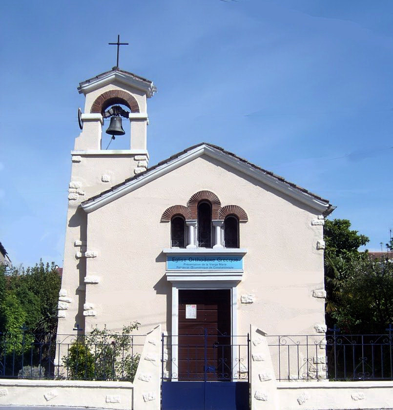 Greek Orthodox Church of Bordeaux - "The Entry of the Most Holy Theotokos into the Temple" (Ecumenical Patriarchate of Constantinople)